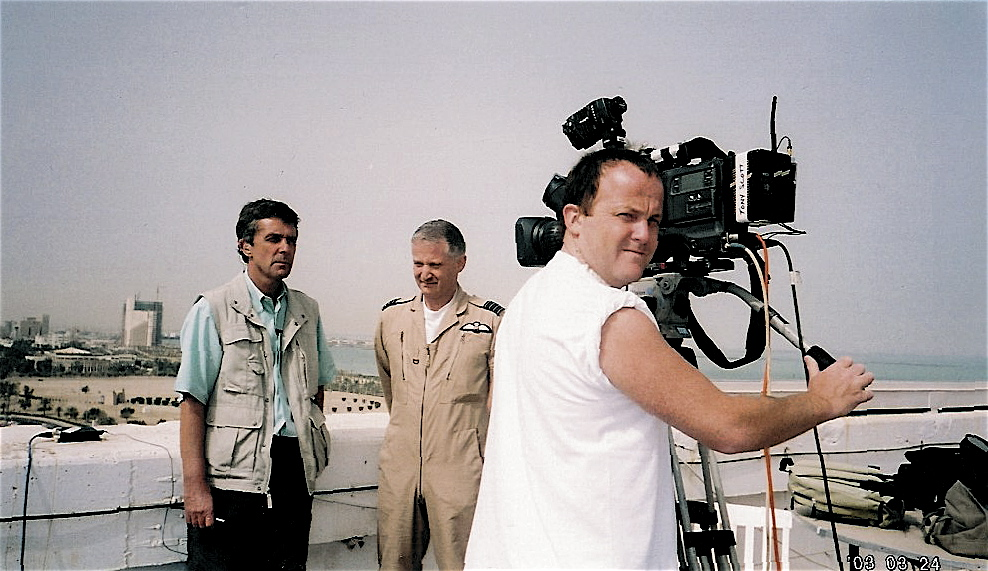 War on Iraq 2003: Rooftop Sheraton Hotel Kuwait City Group Captain Jon Fynes British spokesman - a nice man - gets ready to explain how an RAF aircraft was mistaken for an Iraqi plane and 'accidentally' shot down by the Americans in the coalition no fly zone. The crew died. By this time the Iraqi's didn't have an airforce or much in the way of runways for that matter. John Stapleton's first question went straight under the Group Captain's radar as he was gracious enough to admit later. The UK's breakfast television news team in Kuwait (GMTV) - just three strong - always punched above its weight. Picture also shows Tony Scott. Better mention him. Apart from being a top guy it was his camera! A set of three pictures